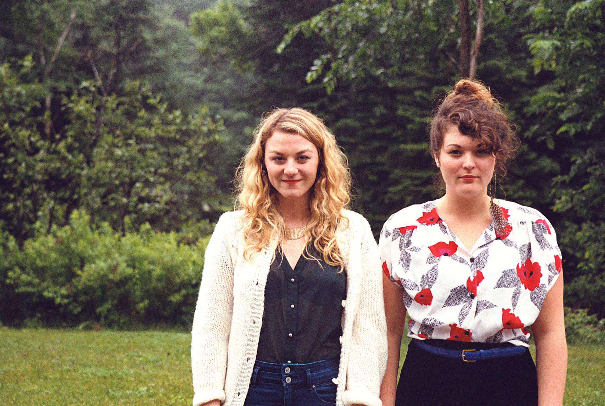 Les sœurs Boulay.